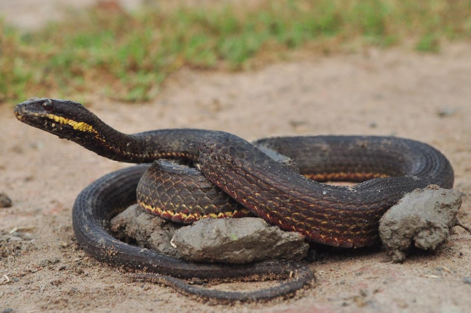 Specimen from Kolkata, West Bengal (India)